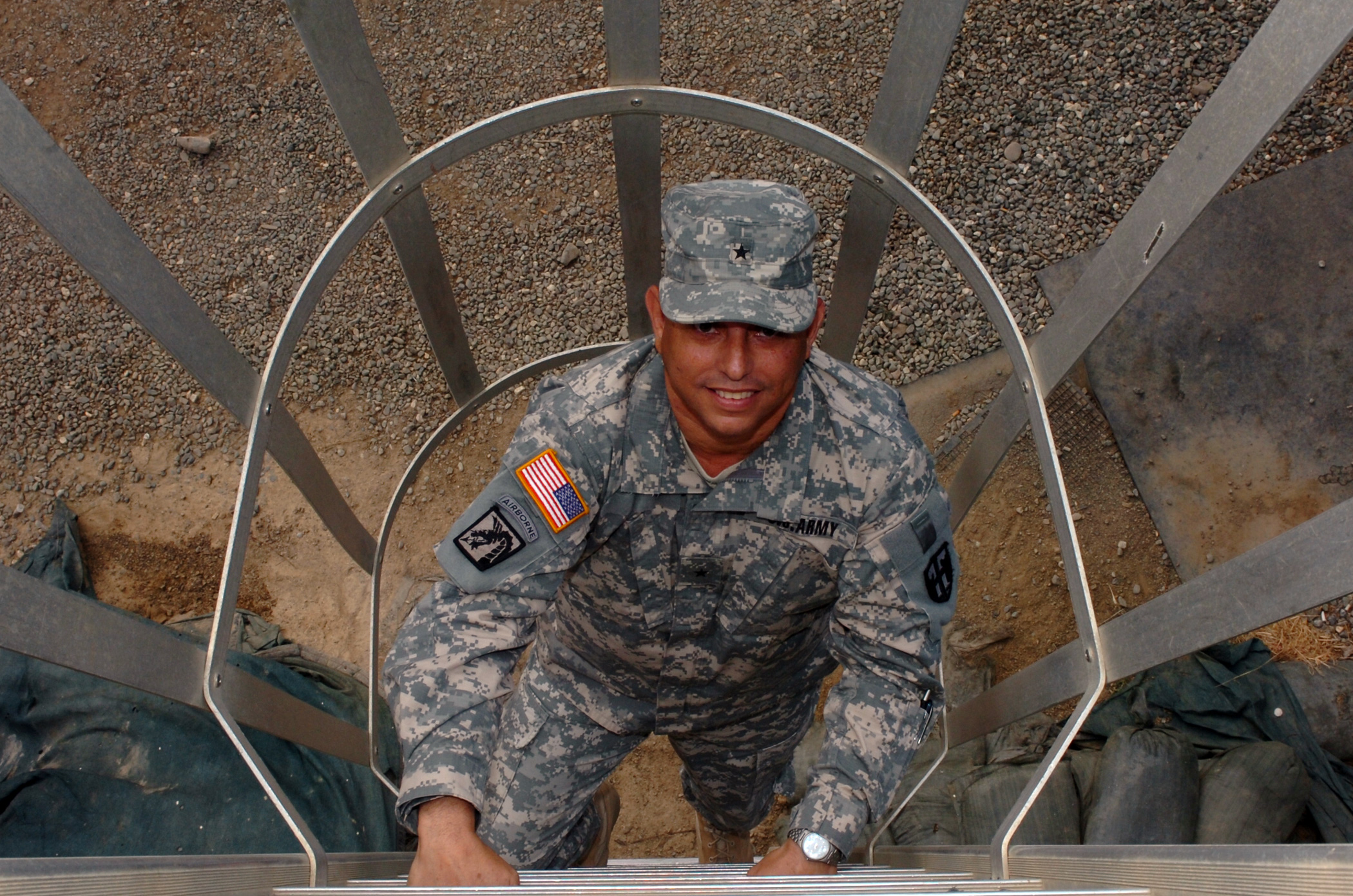 GUANTANAMO BAY, Cuba %u2013 Army Brig. Gen. Rafael O%u2019Ferrall, Joint Task Force Guantanamo deputy commander, climbs down the ladder of a guard tower after visiting with a Trooper at Camp Delta, Jan. 20, 2009.(JTF Guantanamo photo by Army Staff Sgt. Emily J. Russell) UNCLASSIFIED %u2013 Cleared for public release.